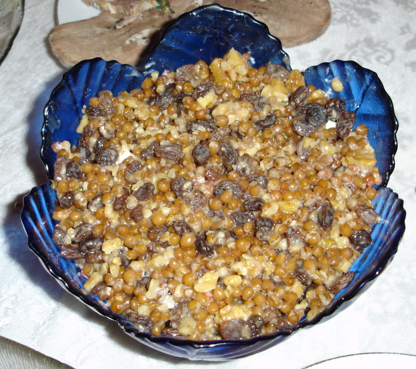 Koljivo